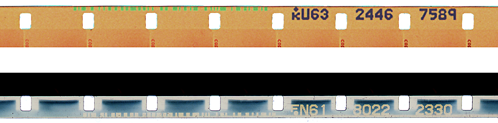 A scan of 2 strips of 16mm film, showing their edge codes. Top strip is Kodak color negative. Bottomn strip is a print made from a Fuji color negative.